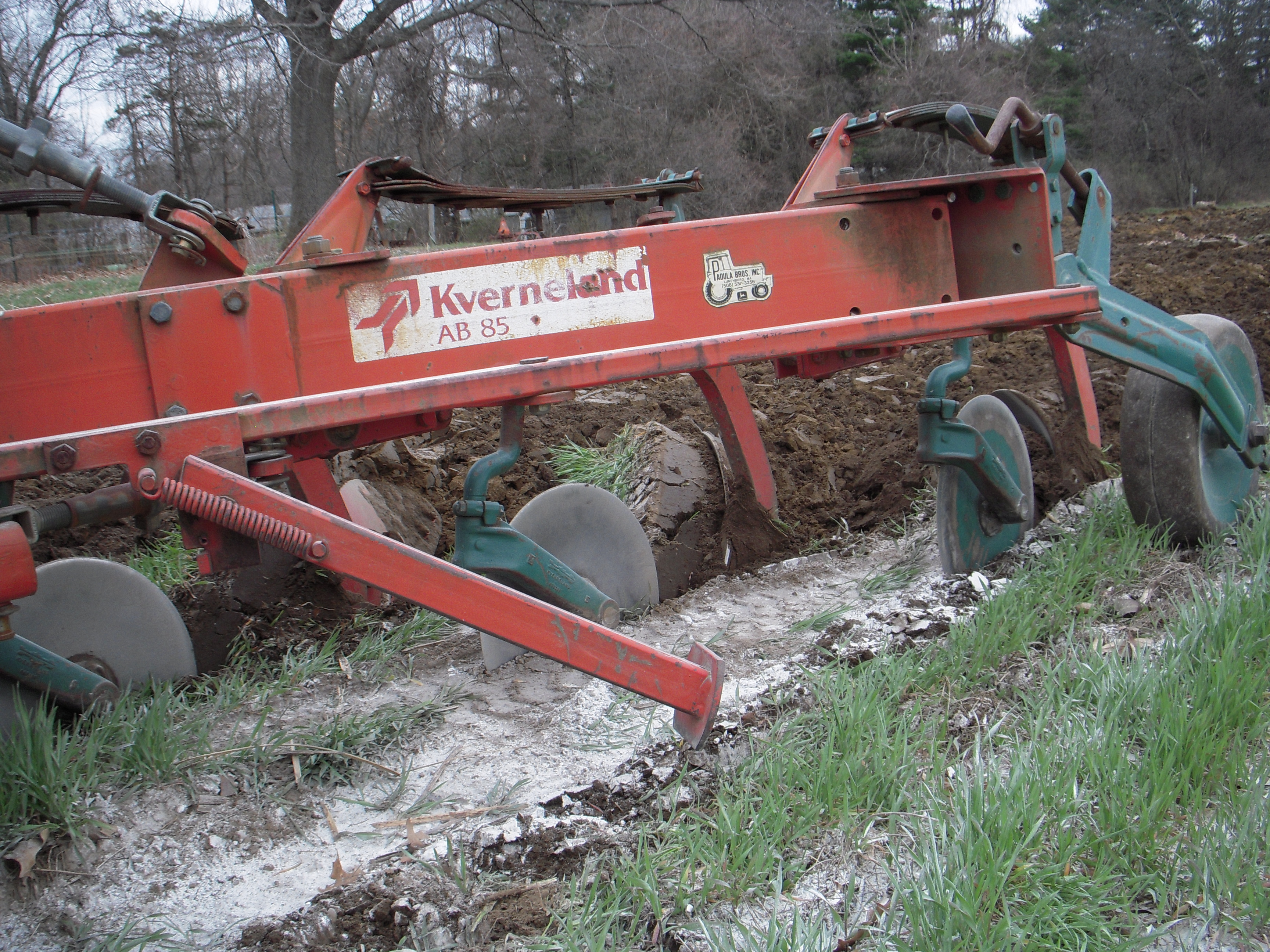 Kverneland AB 85 3-furrow plough